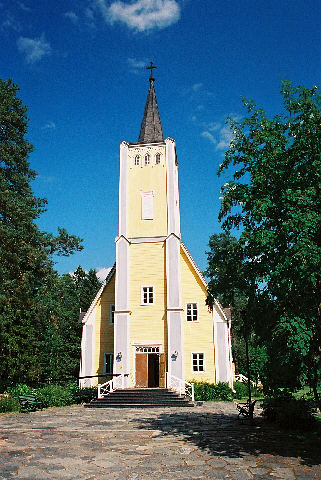 Lutheran church in Muhos, Finland